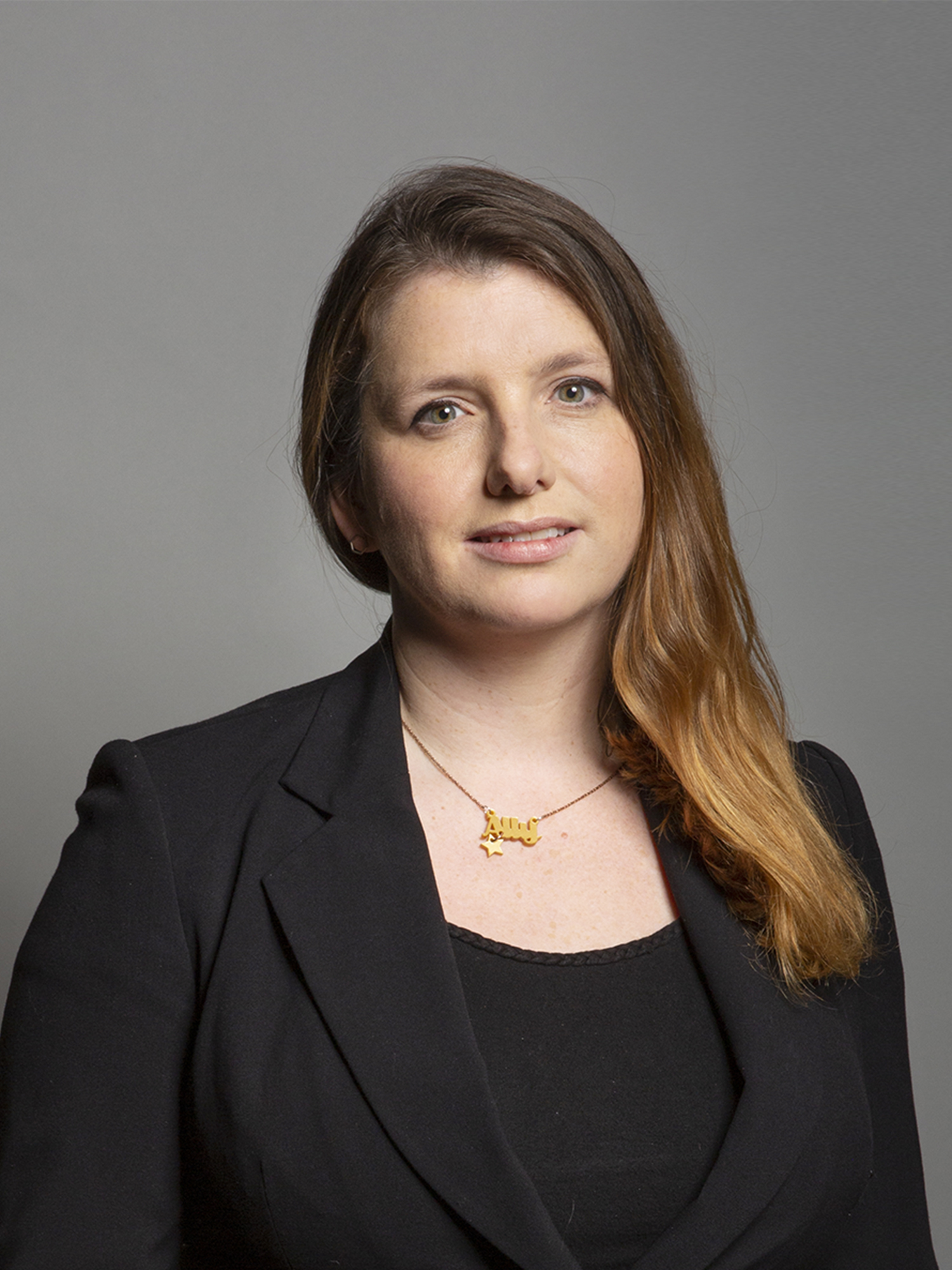 Official portrait of Alison McGovern MP 3×4 portrait of Alison McGovern